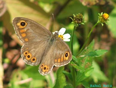 The Common Wall, Pararge schakra, a Satyrid butterfly (Subfamily Satyrinae, Family Nymphalidae) found in India in the Himalayas. This is the UP view. This photo was taken by Rahul Natu on 09 Oct 2005. Donated by Rahul Natu to Wikimedia Commons for use in the Indian butterflies wikibase on Wikipedia. Uploaded by Nature Loader with his permission.